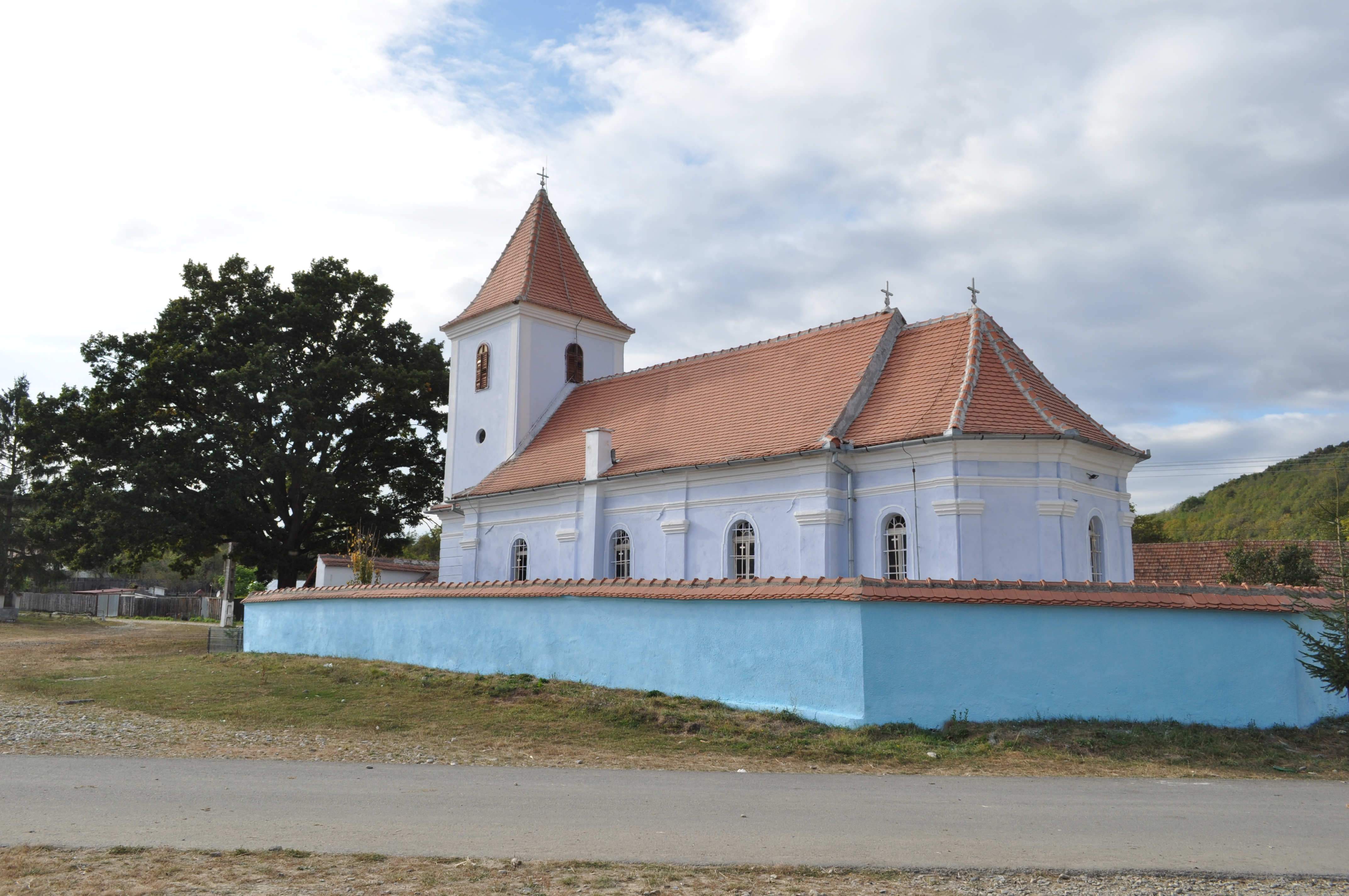 ”The Saint Pious Parascheva” church of Țichindeal, Sibiu county